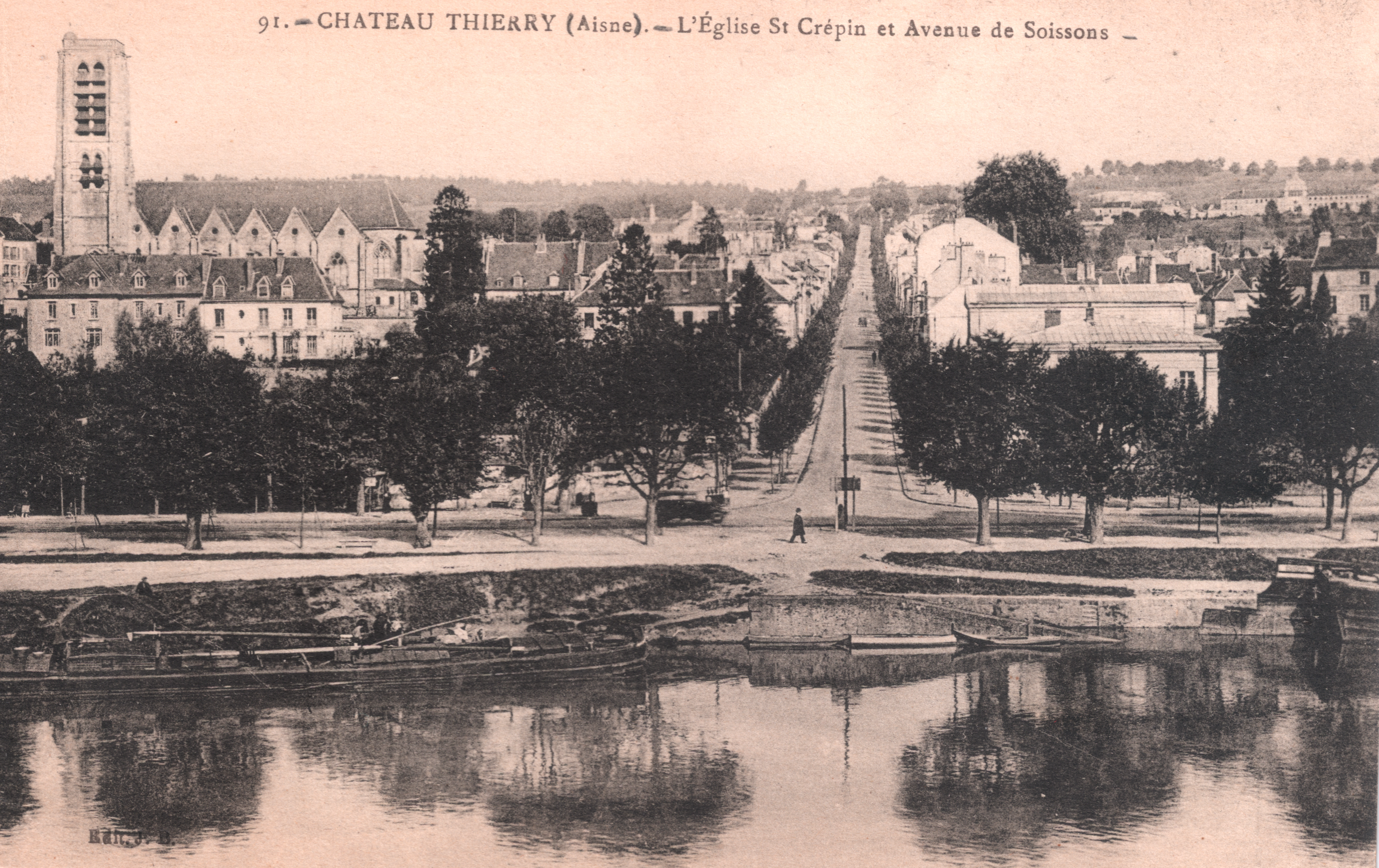 Postcard - Château-Thierry (Aisne) - Soissons avenue as seen from the other side of the Marne river - circa 1910.